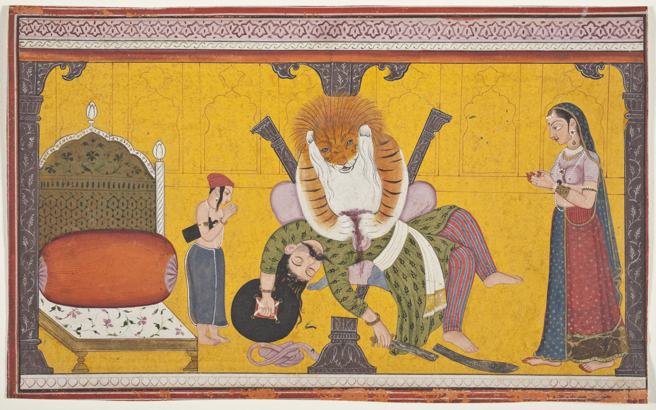 India, Himachal Pradesh, Nurpur, circa 1760-1770 Drawings; watercolors Opaque watercolor and gold on paper Sheet: 5 7/8 x 9 1/2 in. (14.92 x 24.13 cm); Image: 4 3/4 x 9 1/4 in. (12.07 x 23.5 cm) From the Nasli and Alice Heeramaneck Collection, Museum Associates Purchase (M.82.42.8) South and Southeast Asian Art